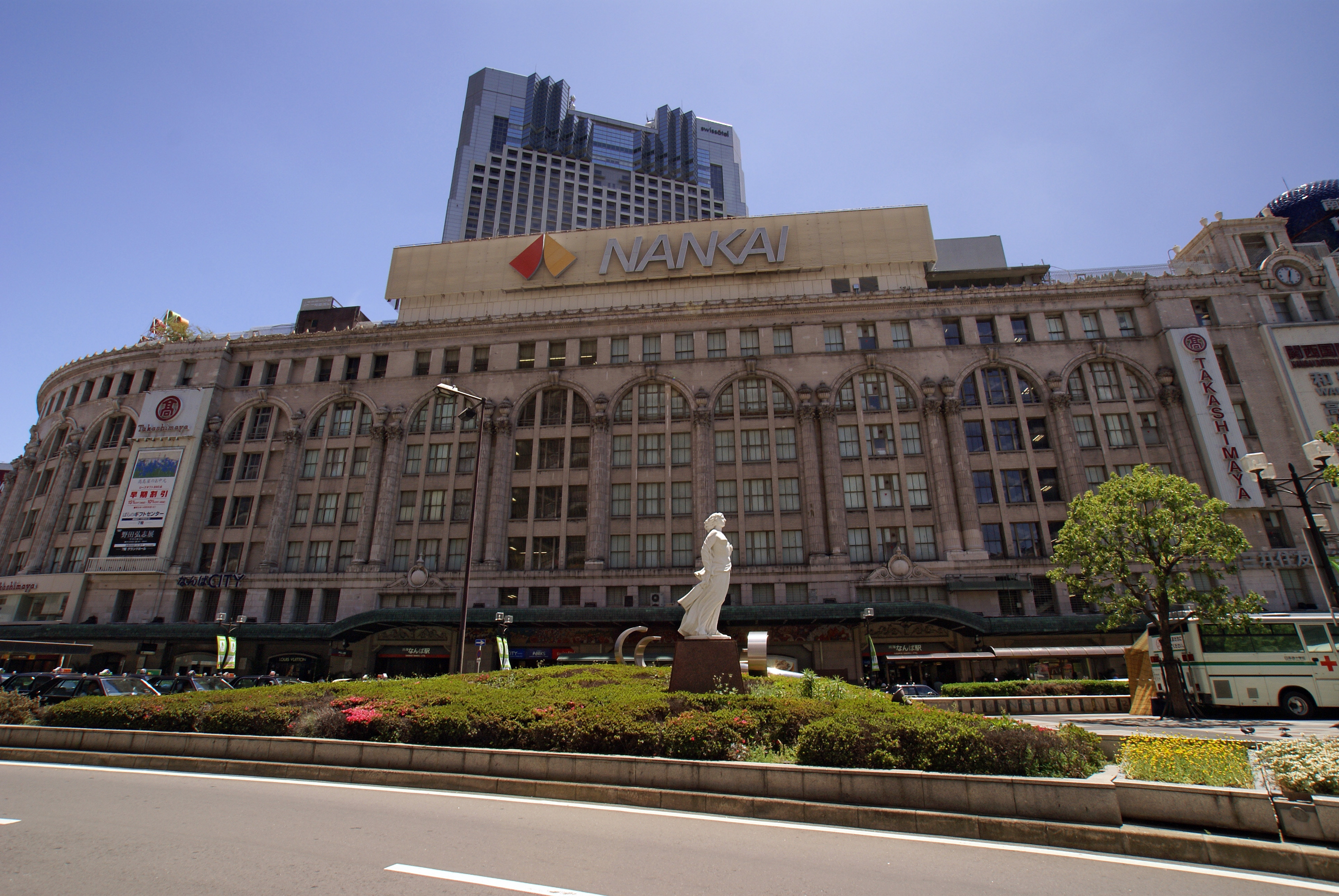 Namba Station with Takashimaya Osaka Department Store and Swissotel Nankai in Osaka, Osaka prefecture, Japan